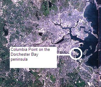 NASA Landsat image of Boston with edited circle around Columbia Point